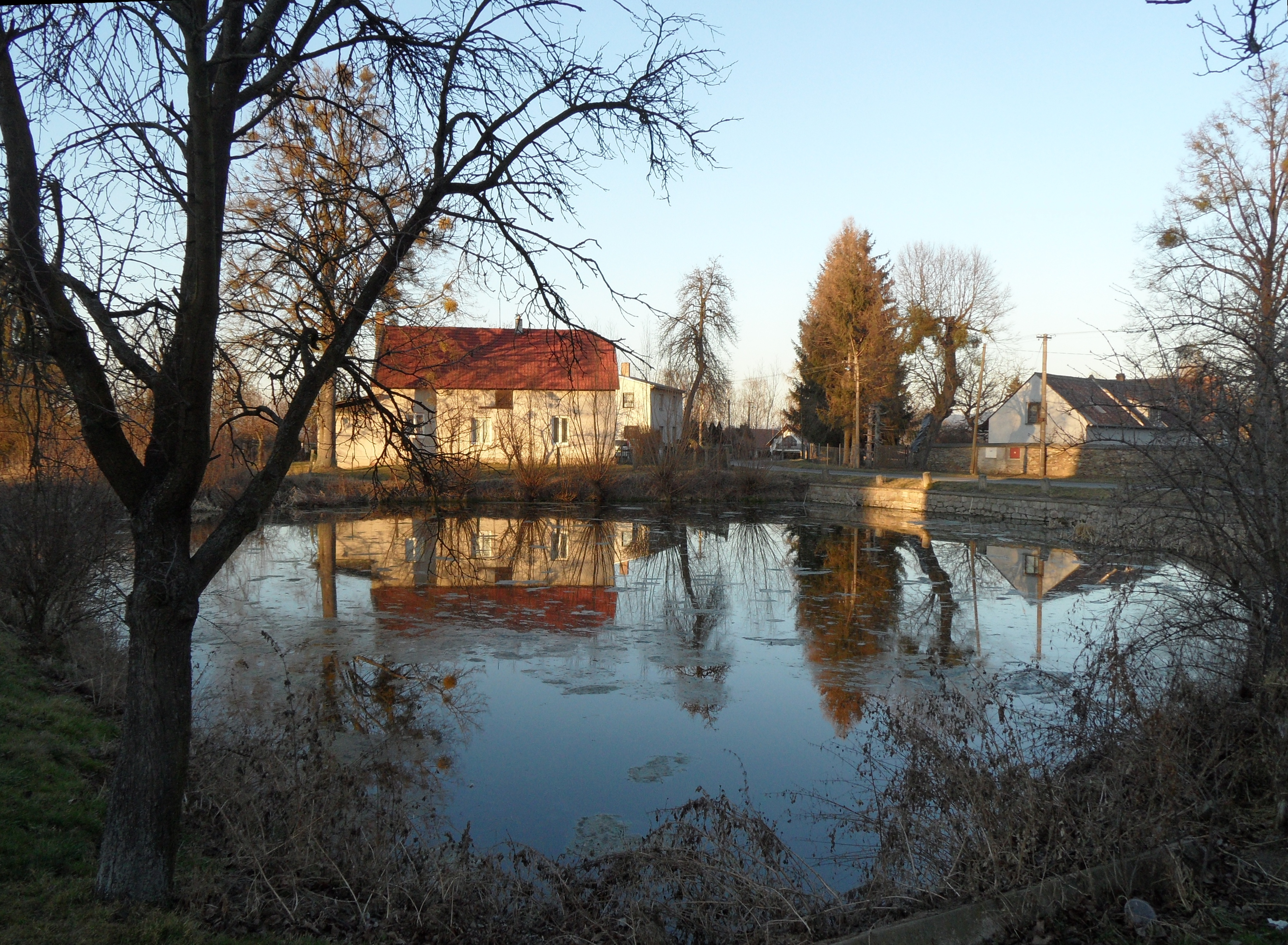 Stupárovice H. Small Pound near Village Square, Houses in Background, Havlíčkův Brod District, the Czech Republic.